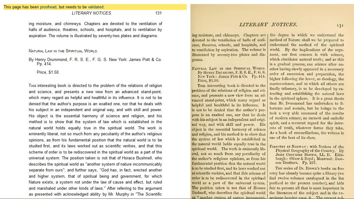 Line wrap - no, creates broken lines in the paragraph